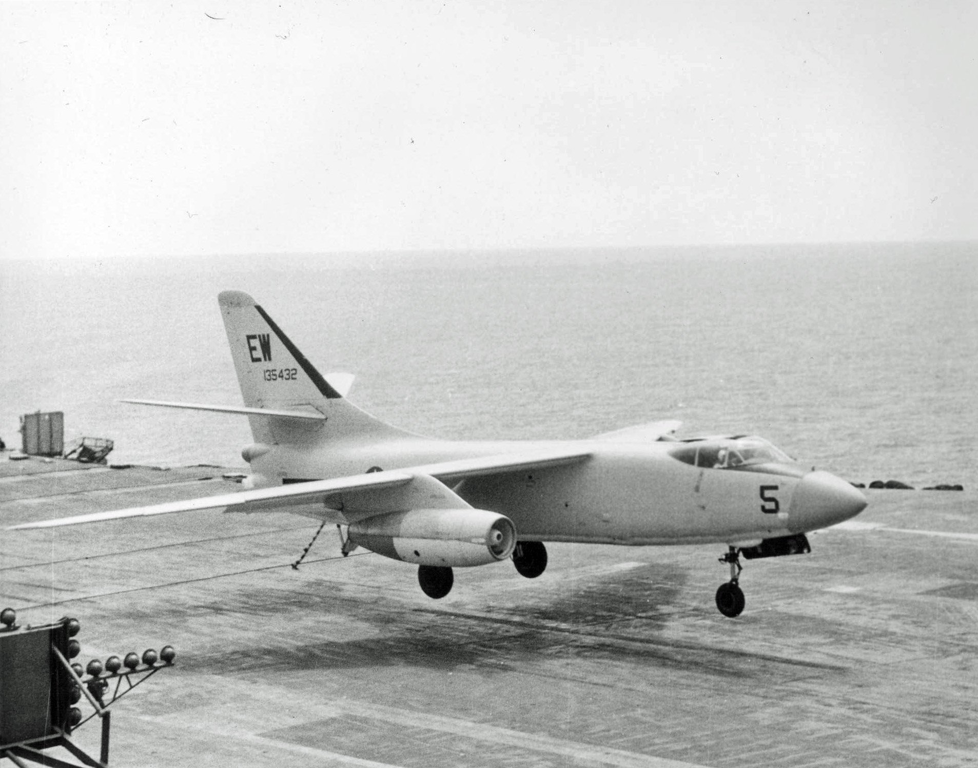 A U.S. Navy Douglas A3D-1 Skywarrior (BuNo 135432) of heavy attack squadron VAH-3 Sea Dragons (tail code EW) pictured moments before trapping on board the carrier USS Saratoga (CVA-60), 1957. The A3D-1 135432 was scrapped at the NARF Alameda in August 1968.